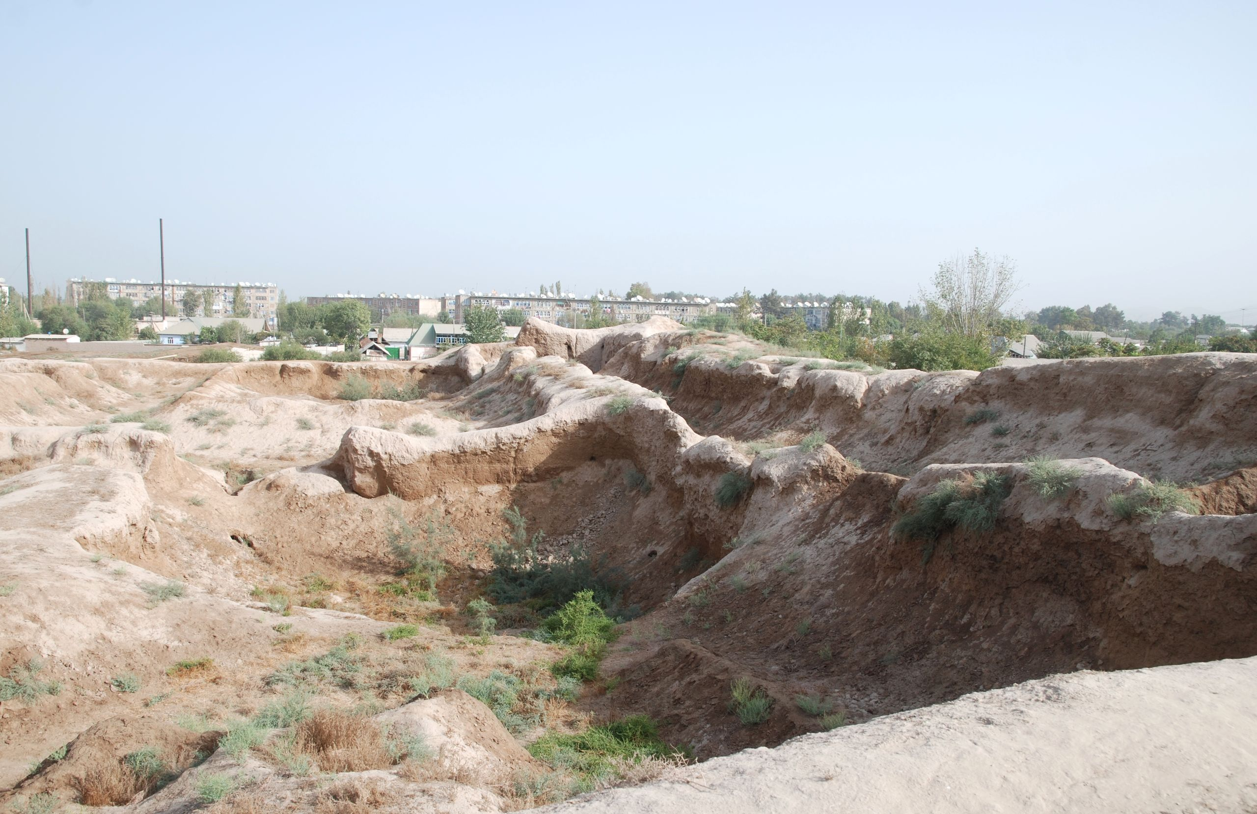 Kafyr Kala, citadel, Kolkhozobod